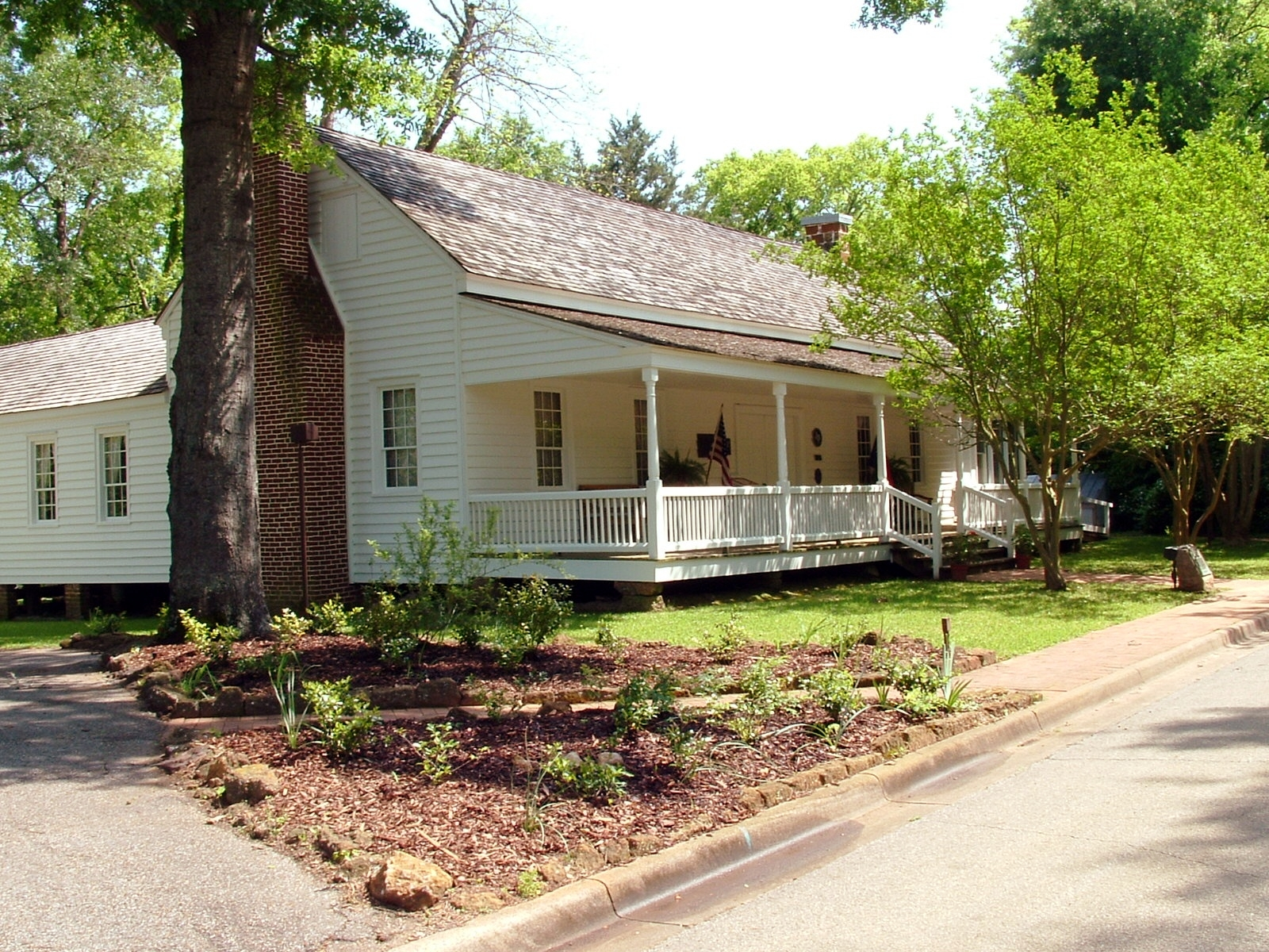 Adolph Sterne House, Nacogdoches, Texas, USA. Sterne (1801–1852) was the first American Mayor of the town and a personal friend of Sam Houston. Sam Houston was baptized here in this house a Catholic, in order to be able to buy land in still Mexican Texas. Davy Crocket stayed here with the Sterne Family in 1835. The house serves as a museum.